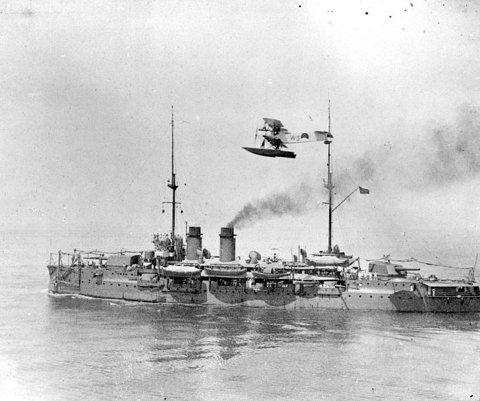 The Hr.Ms. De Zeven Provinciën in the Straits of Malacca with a "van Berkel W-A" floatplane above. She served in the Royal Netherlands Navy from 1908 to 1942. She served part of her career in the Dutch East Indies, from 1911-1918 and from 1921 to 1942. A mutiny failed in 1933. In 1936 she was renamed as Hr.Ms. Soerabaja and served until she was sunk by Japanese bombers off Surabaya, 18 February 1942. She was later refloated by the Japanese but sunk again in 1943.